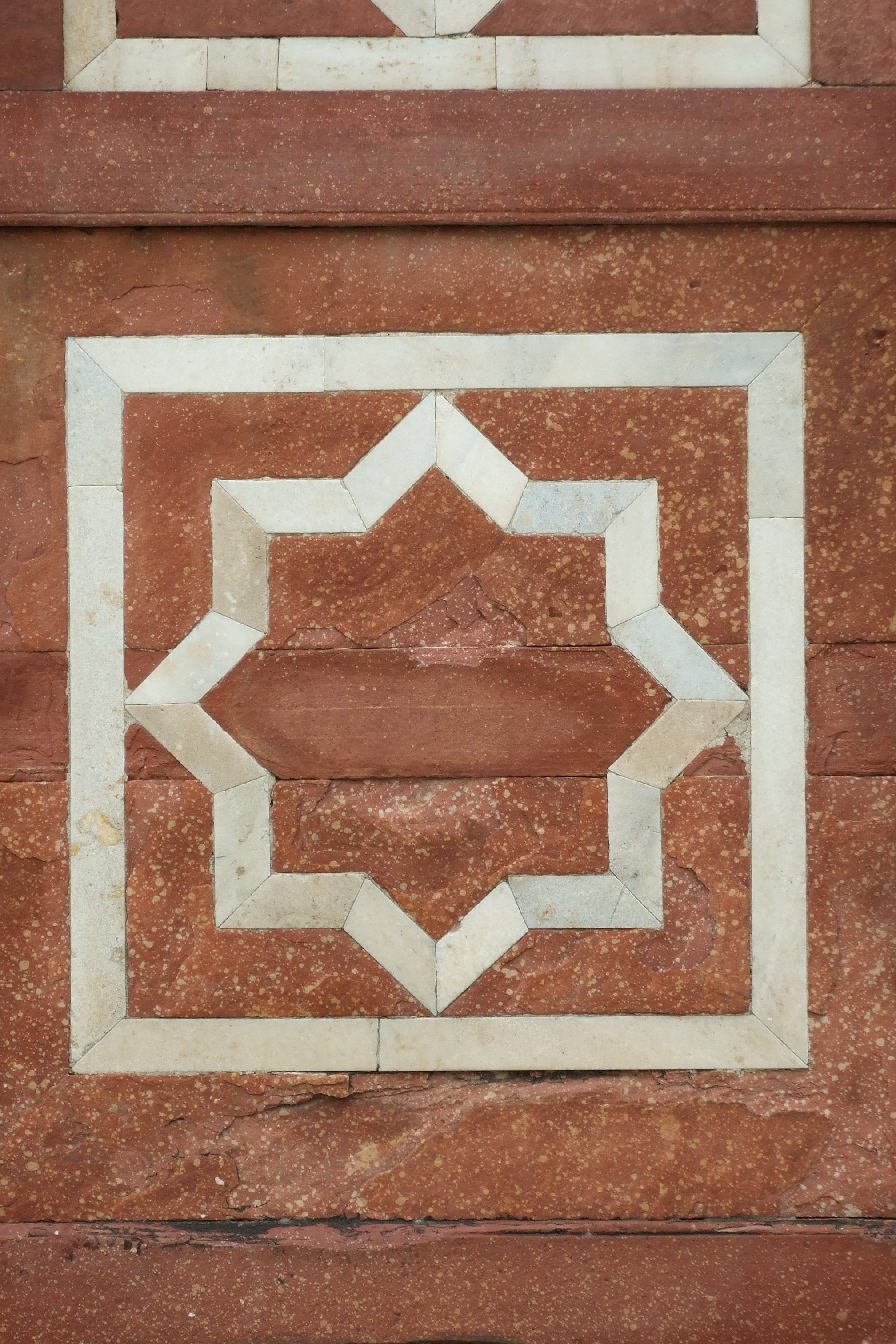 Eight pointed star at Humayun's Tomb, Delhi, India